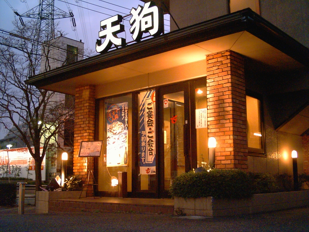 Teng_Restaurant in Japan photography day, 2006/11/3 photography person kici